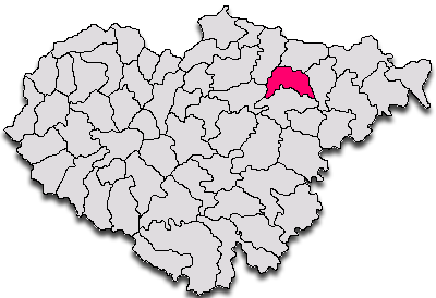 Map Salaj County Romania